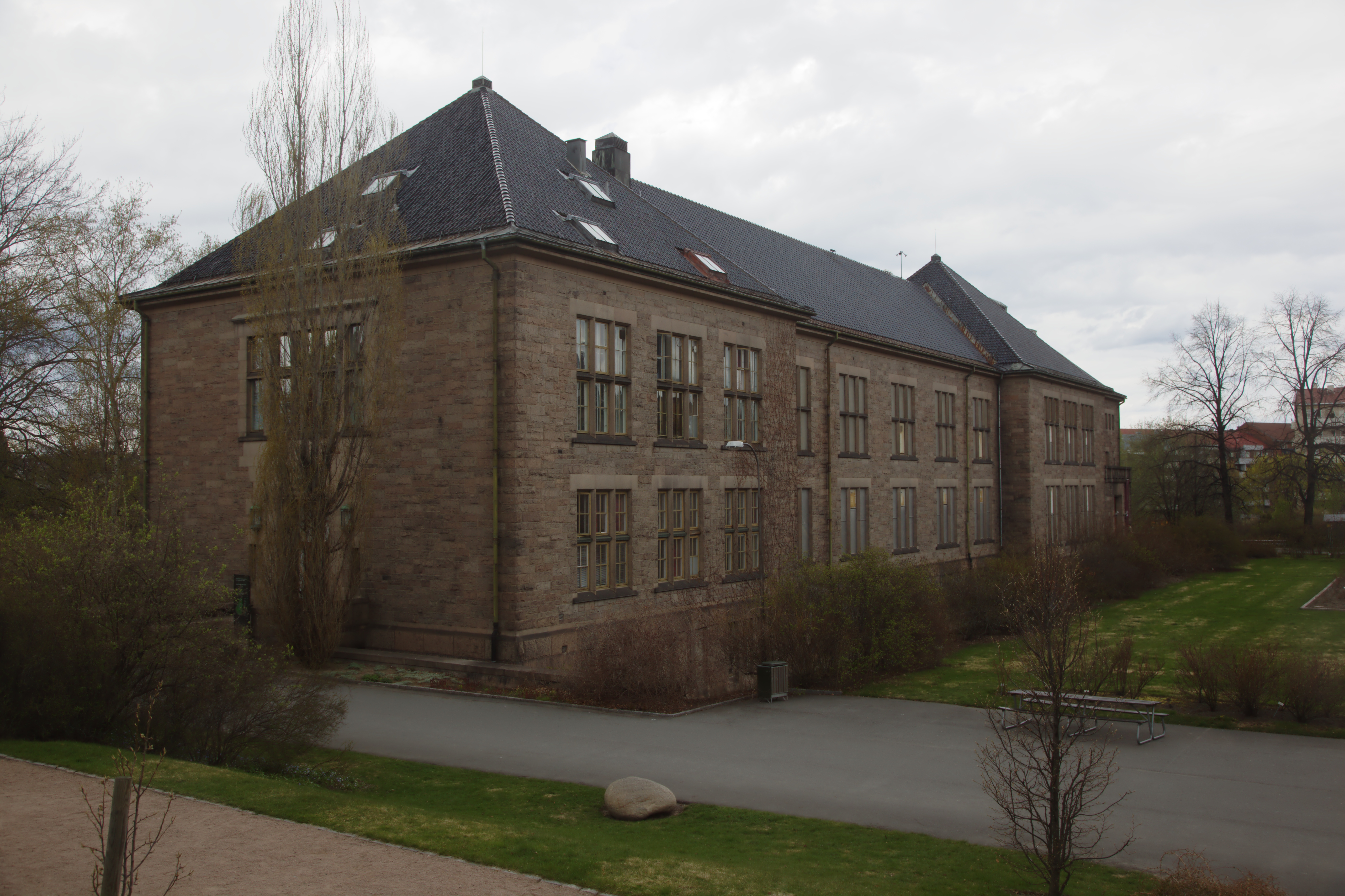 Zoological Museum in Oslo, Norway